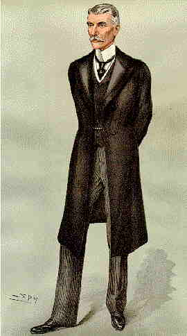 Caricature of General Sir Frederick William Edward Forestier Forestier-Walker GCMG KCB (1844 - 1910). Caption read "Shookey".